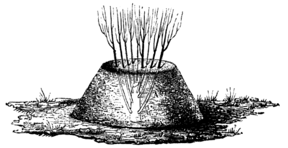 Layering